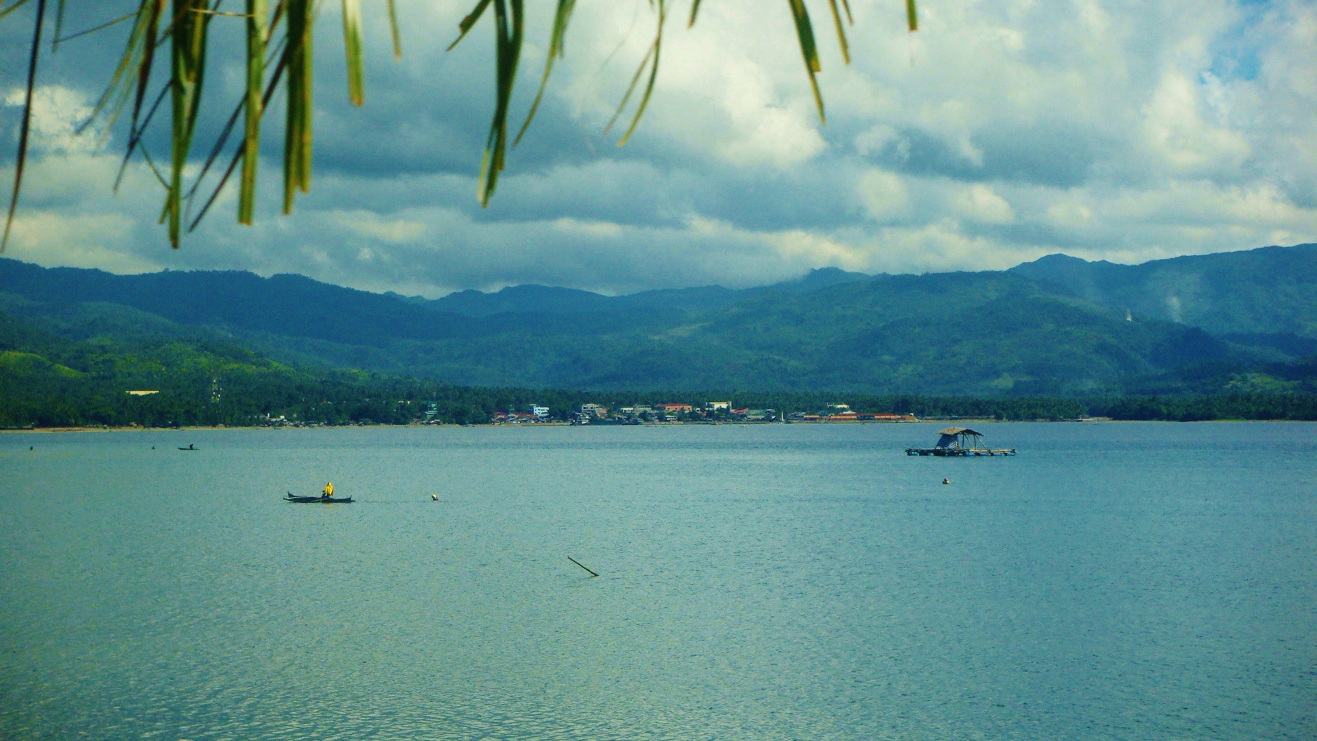 Poblacion Sogod as seen from the town of Bontoc